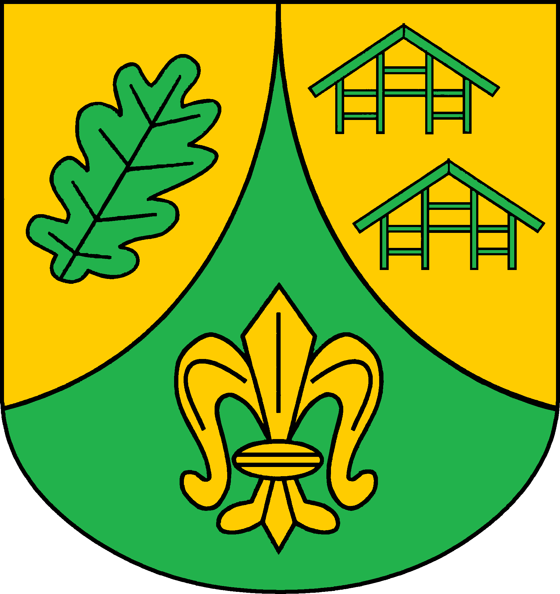 Coat of arms of the municipality Dahmker in Schleswig-Holstein, Germany.